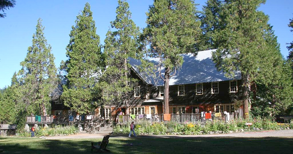 Photos of Breitenbush Hot Springs View of main lodge from front lawn in early morning